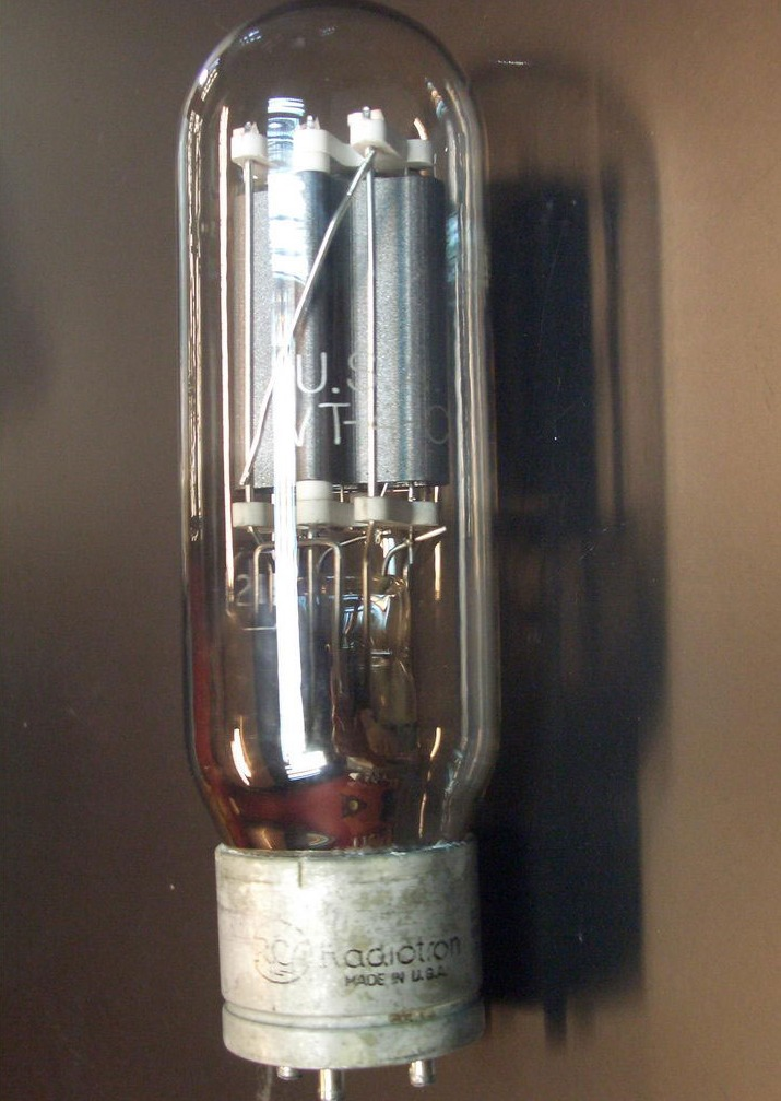 RCA 211 direct heat triode tube